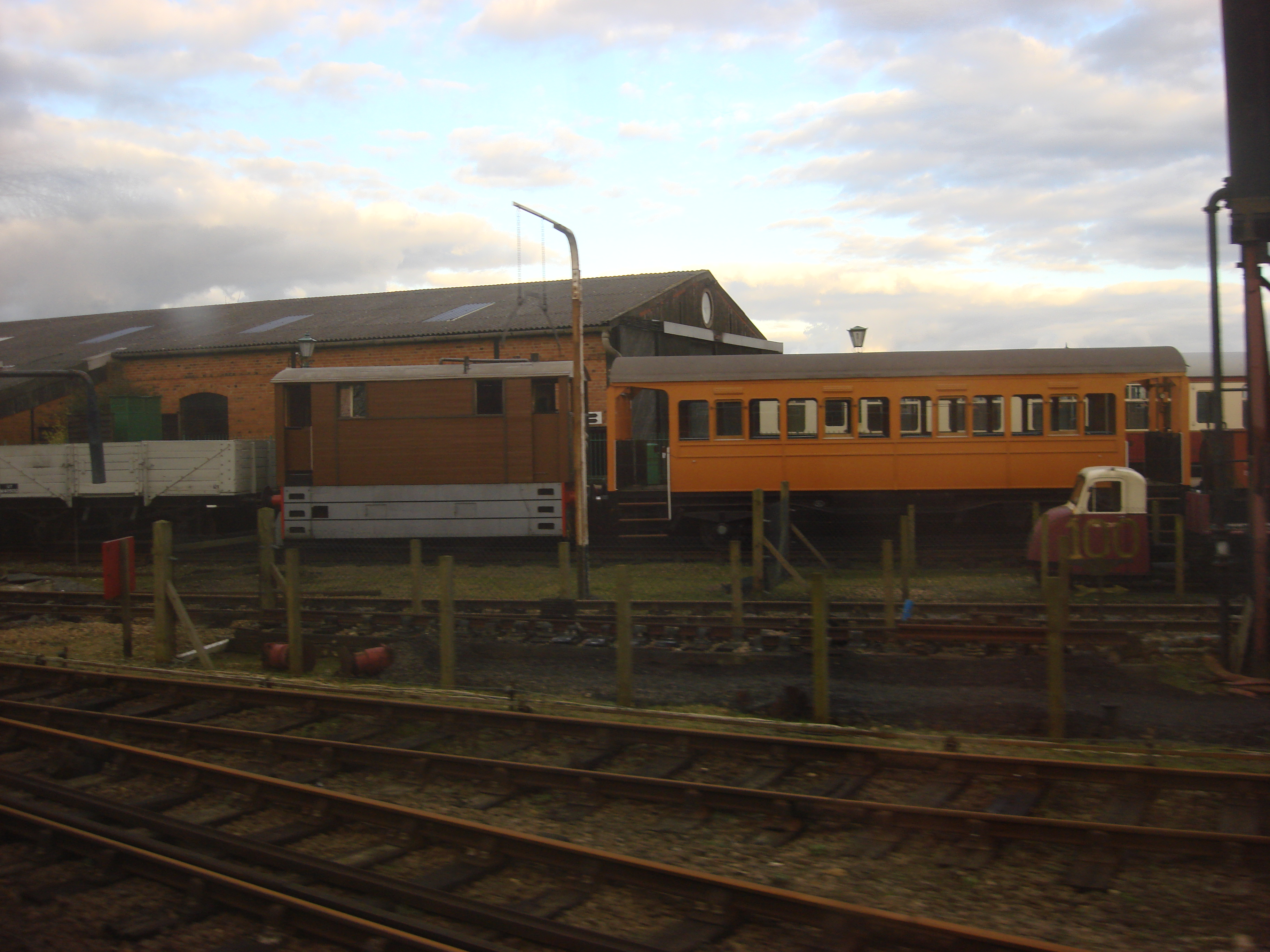 Replicas of Toby the Tram Engine and Henrietta at the East Anglian Railway Museum